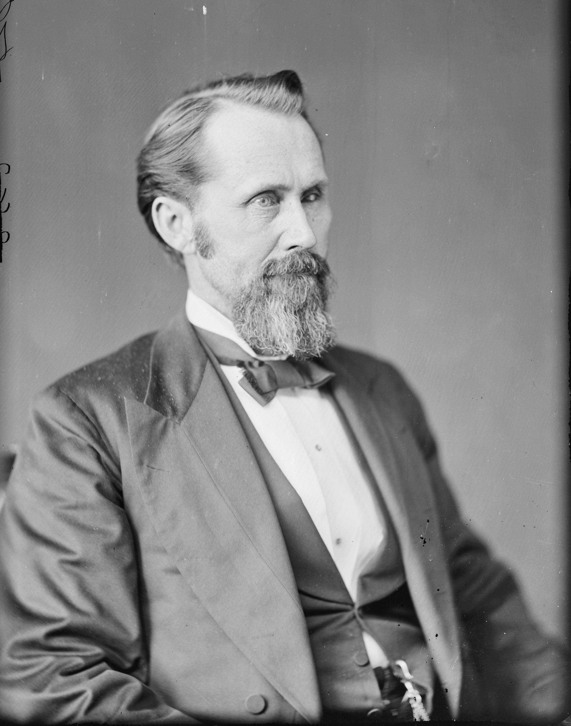 William Parker Caldwell. Library of Congress description: "Caldwell, Hon. Wm. Parker of Tenn. Presidential Elector on the Democratic ticket of Douglas and Johnson in 1860"